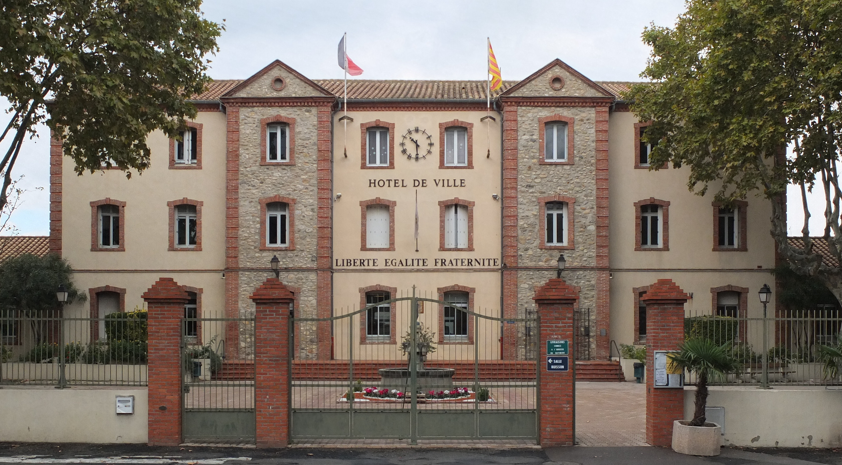 Town hall of Argelès-sur-Mer, France